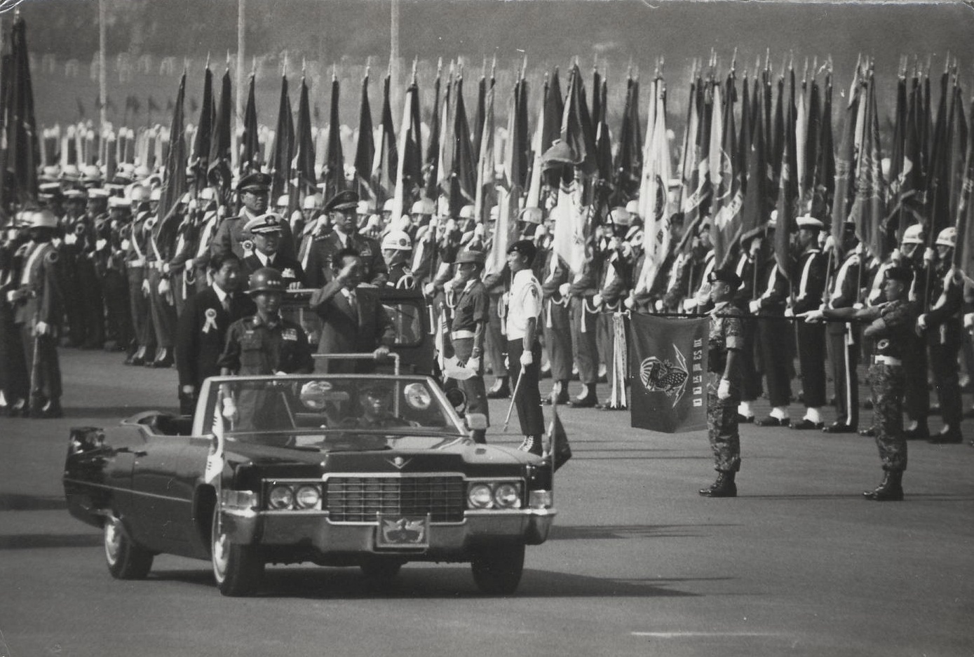 President Park Chung-hee is standing in presidential car which is honoring Korean Armed Forces day.